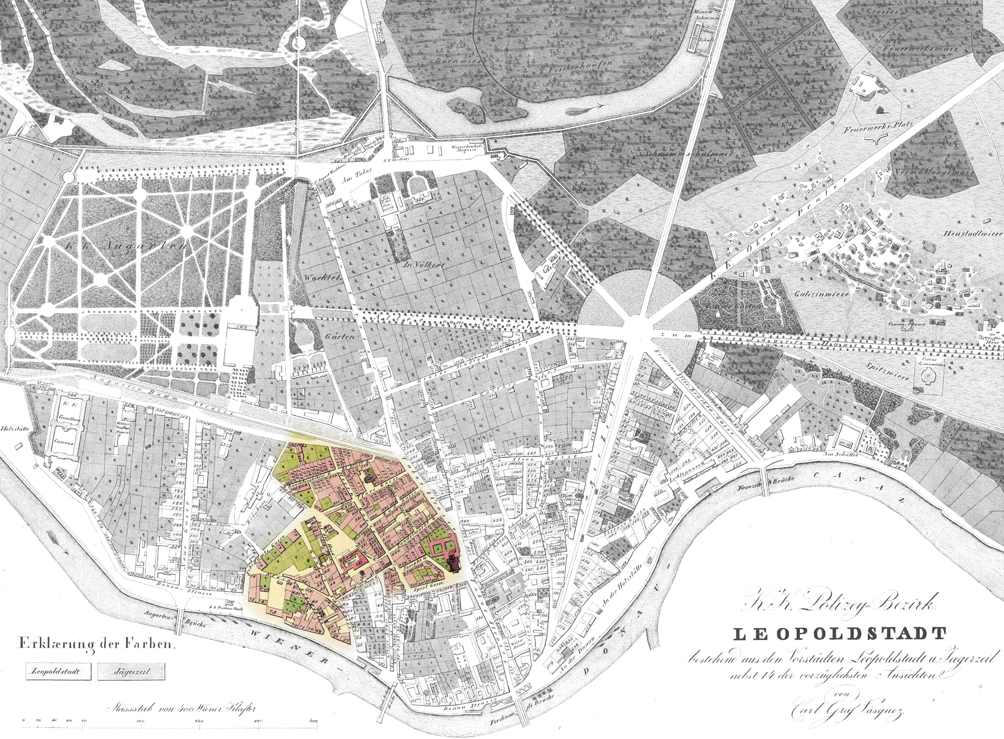 Map of Vienna / Karmeliterviertel, approx. 1830